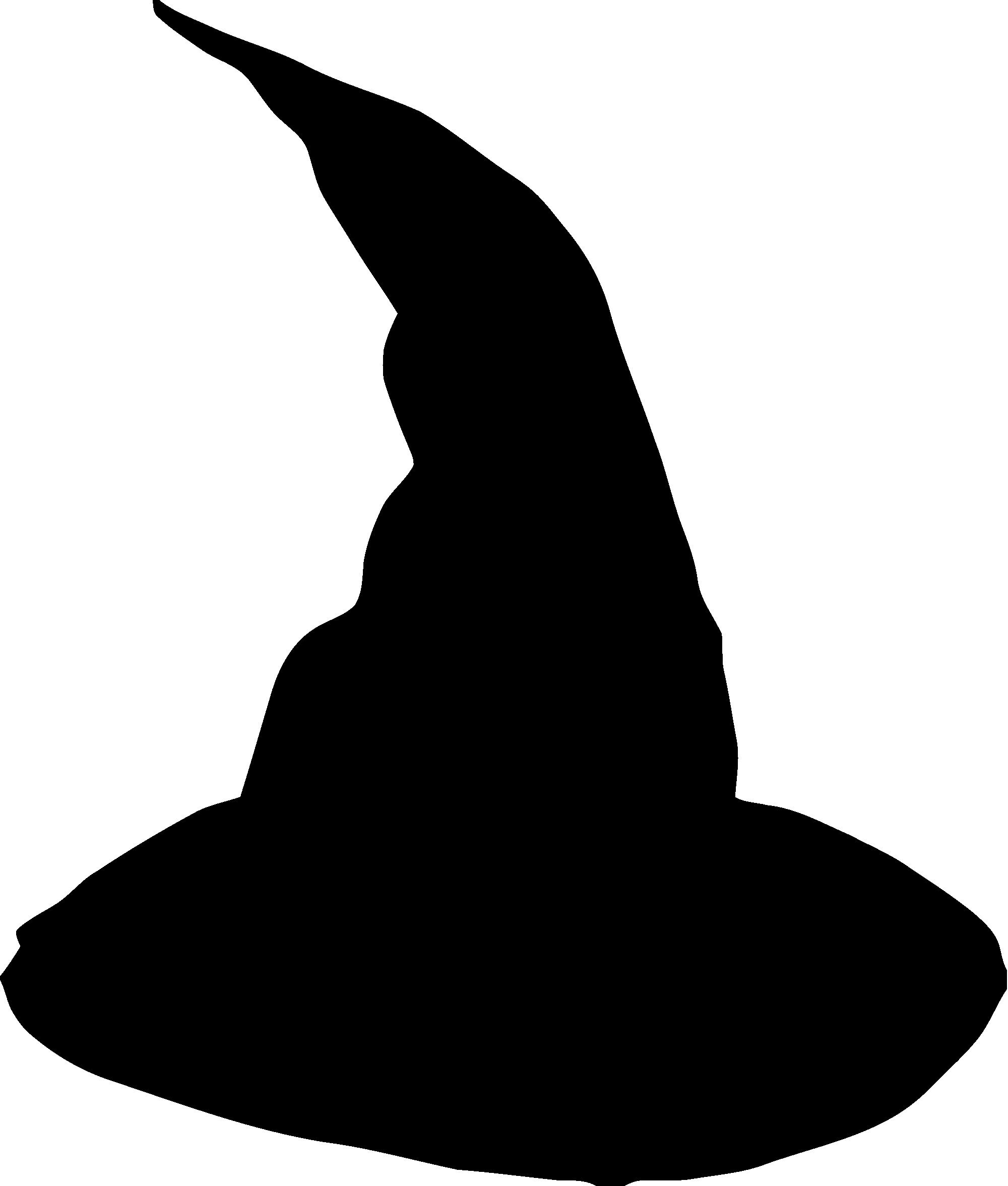 Symbol for WikiWitch in Black